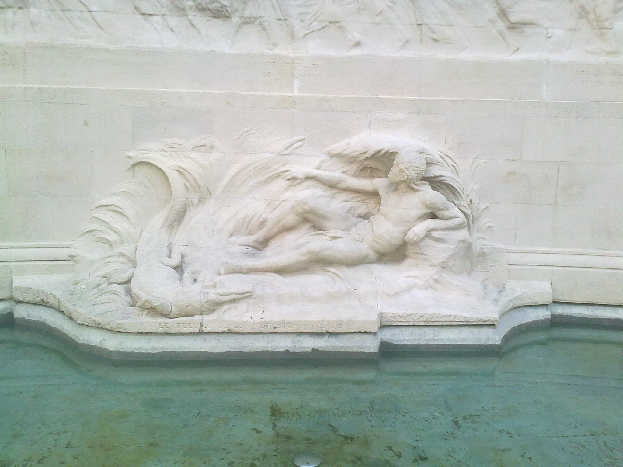 Monument to the Belgian pionniers in Congo. Located in the 50th jubileum Park, Brussels. The Congo River allegory as seen by Vinçotte.